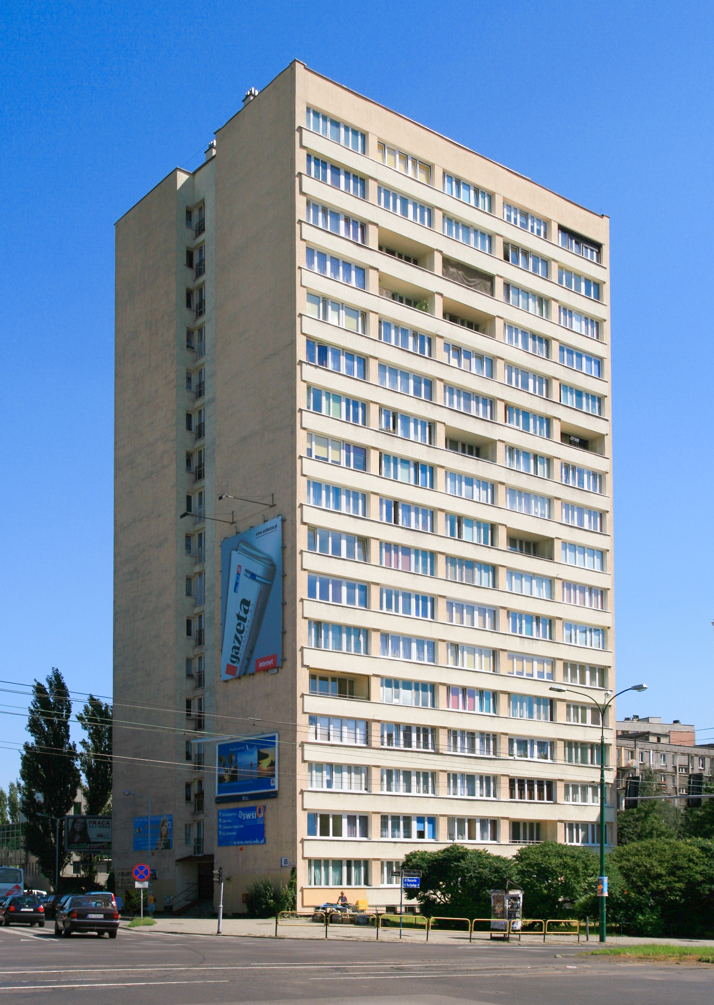 Skyscraper on the Katowicka Street 65 in Katowice (Poland).